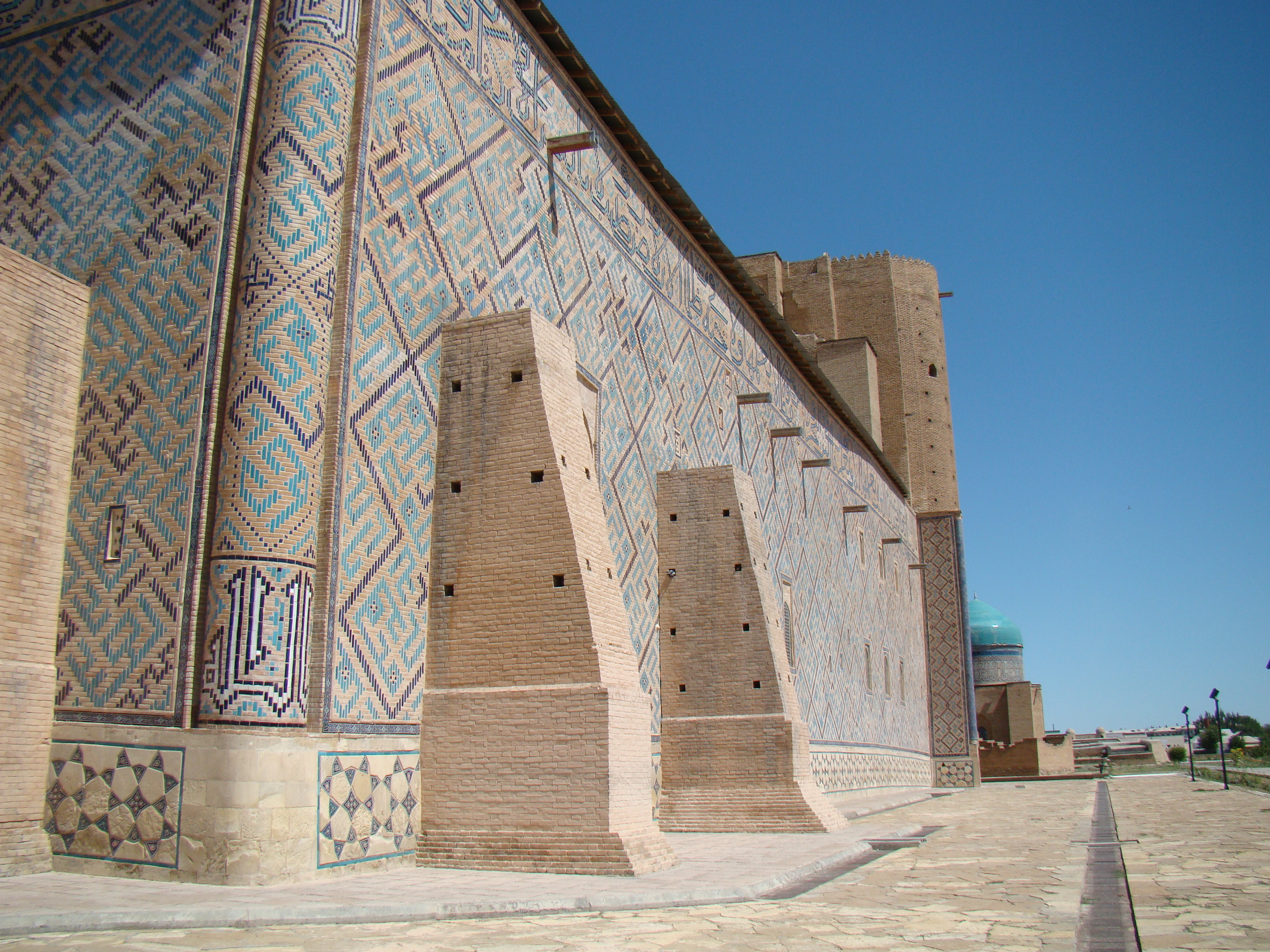 Mausoleum of Khoja Ahmed Yasavi. The coloured tilework features square Kufic writing of names such as Muhammad and Allah, in a technique known as banna'i